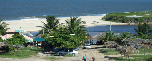 Pitimbue Beach